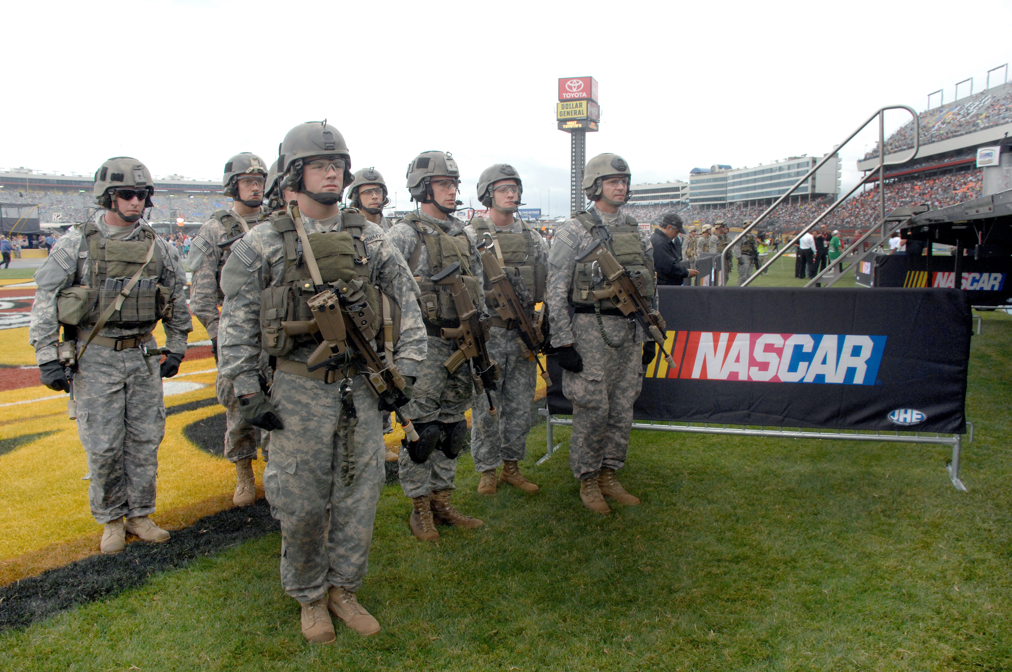 Rangers from 1st Battalion, 75th Ranger Regiment, Fort Benning, G.A. stand at attention on the infield of the Lowes Motor Speedway, during the Coca Cola 600 NASCAR pre-race military appreciation show in Concord, N.C. on May 24, 2009, as they are honored for their service to the USA.